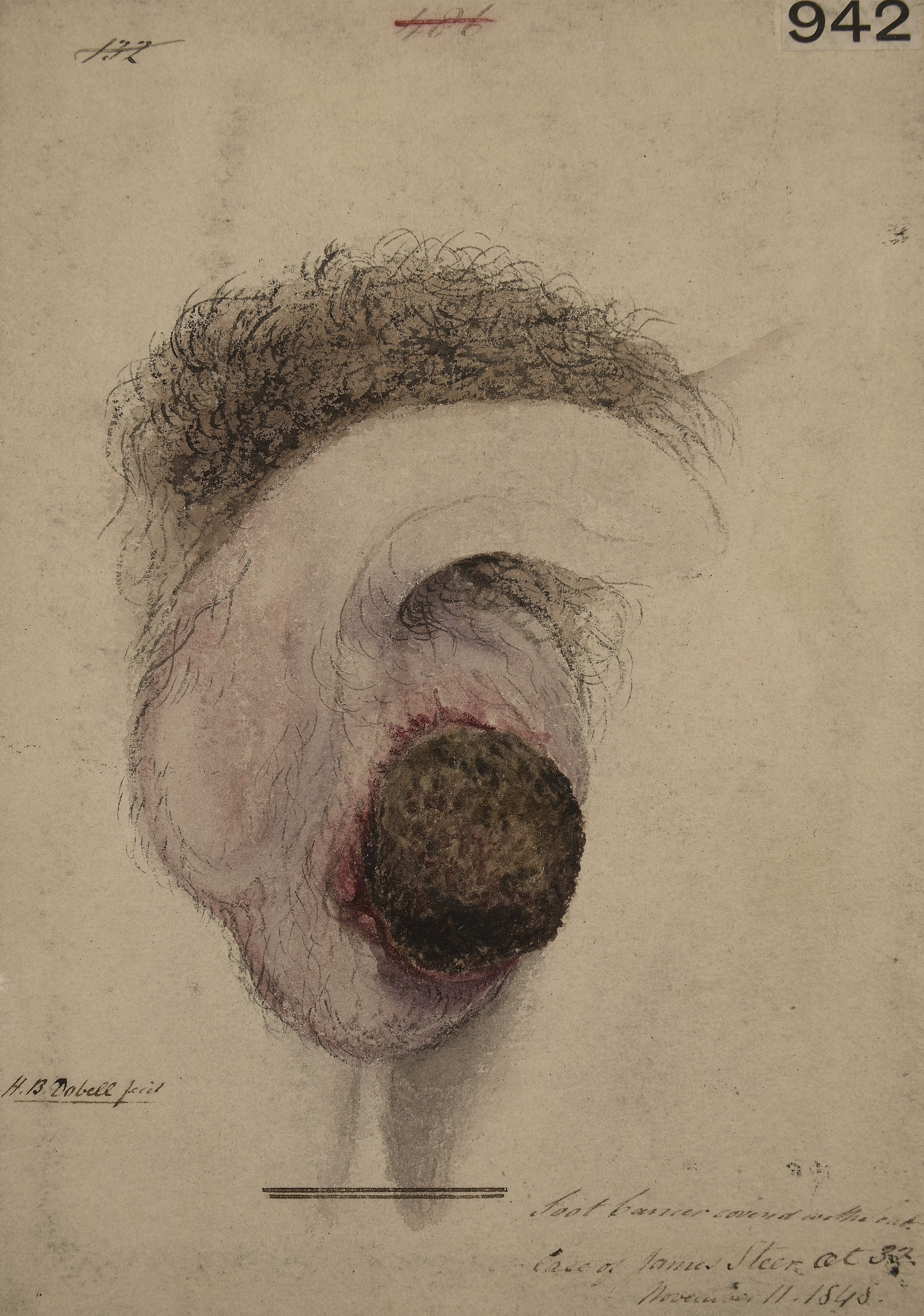 Watercolour drawing of a case of chimney sweep's cancer, showing a large wart on the scrotum covered with a thick, dry, black scab. Patient was a 32 year old soot carrier. Drawn by Horace Benge Dobell, physician, whilst a student at St Bartholomew's Hospital Medical School. Medical Photographic Library Keywords: Dobell, Horace Benge